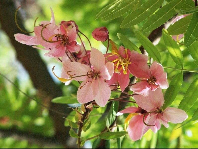 The Java Pink Cassia or Cassia javanica is a beautiful deciduous tree with clusters of pink flowers and pods that are long and tubular. The pods contain coin-like disc shaped seeds and smell plain yucky! As the scientific name suggests the tree is a native of Java and Asian tropics.